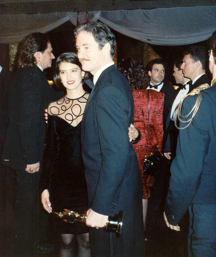 Oscar-winner Kevin Kline and his wife Phoebe Cates at the Governor's Ball party after the 1989 Academy Awards, March 29, 1989